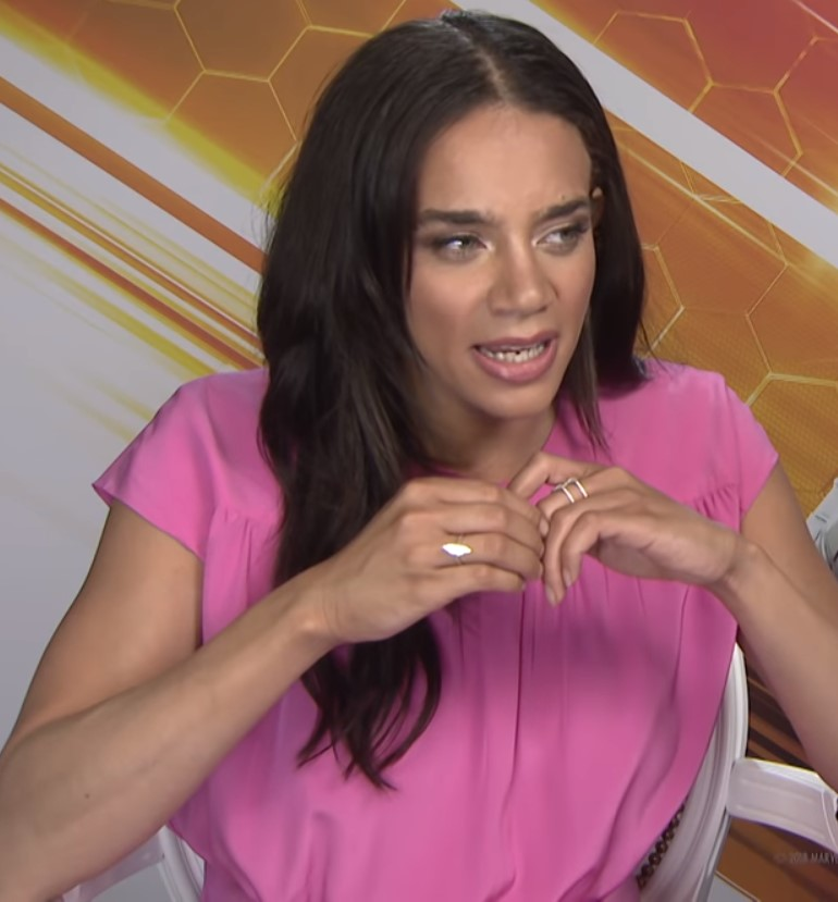 Who’s real name is Nicole? Who won an Orange County beauty pageant? And who’s a vegan? Watch Ant-Man And The Wasp stars Paul Rudd, Evangeline Lilly, Hannah John-Kamen and Peyton Reed take the ultimate SQUAD GOALS test.